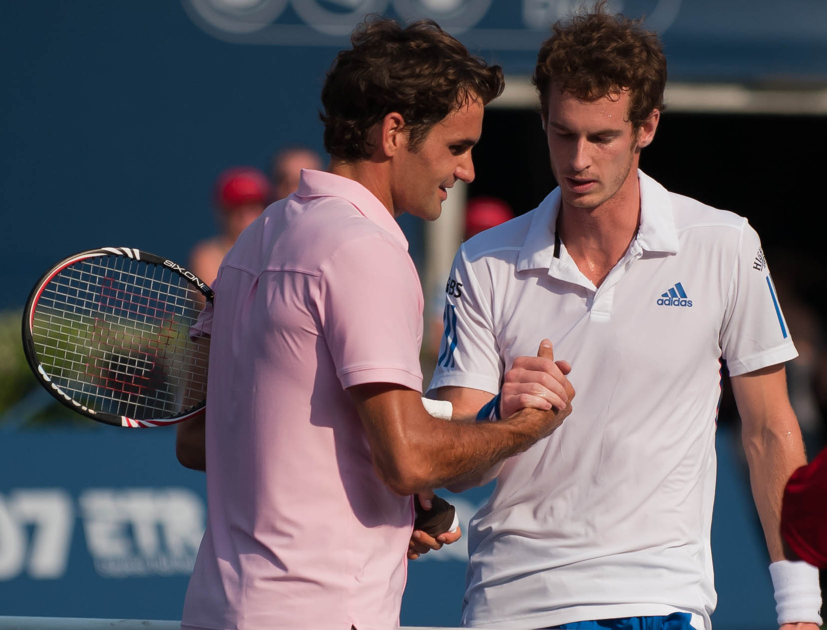 Andy Murray (right) defeats Roger Federer in staight sets at the 2010 Rogers Cup.